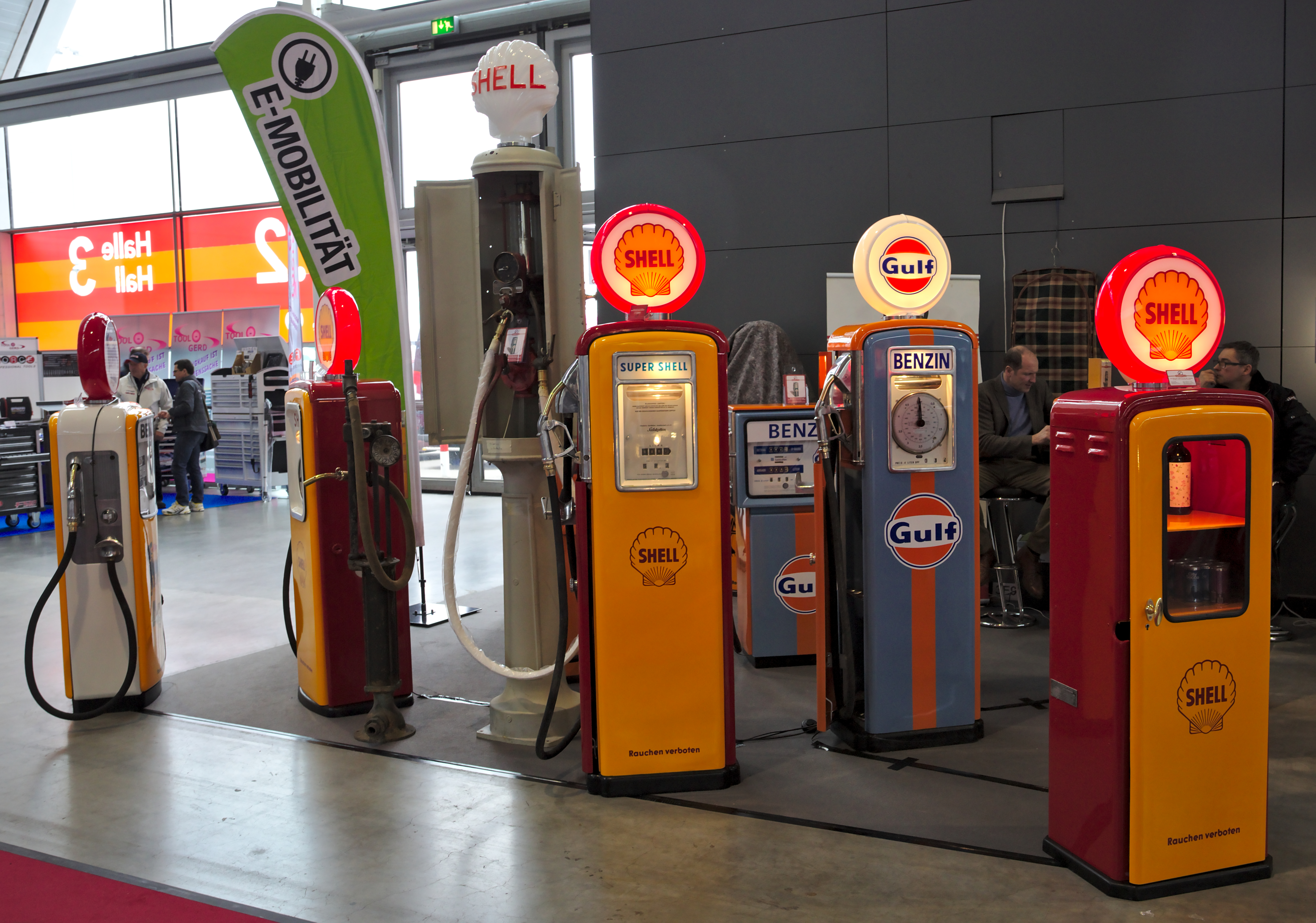 Old fuel dispensers at Retro Classics 2018